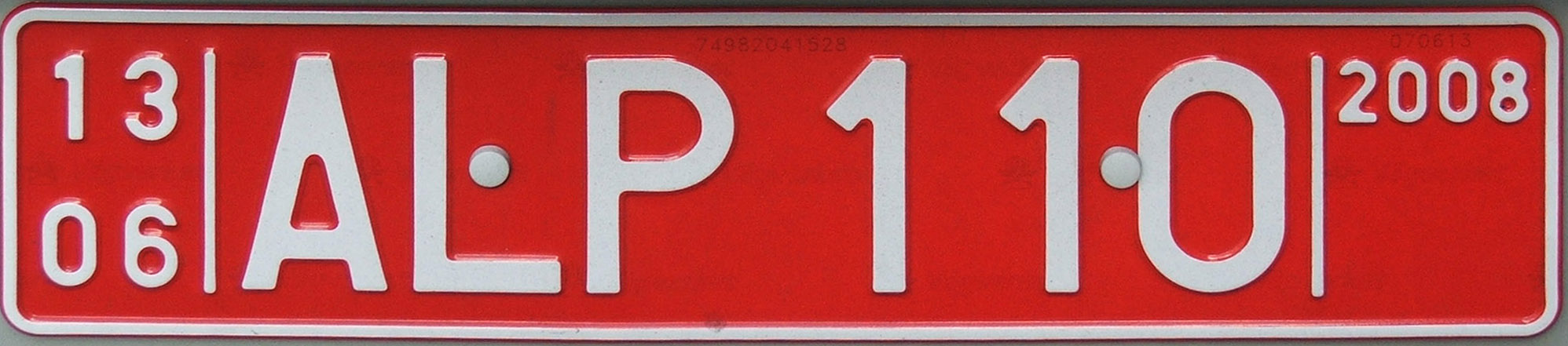 Swedish temporary registration plate as seen in 2007 (for export outside Sweden??).